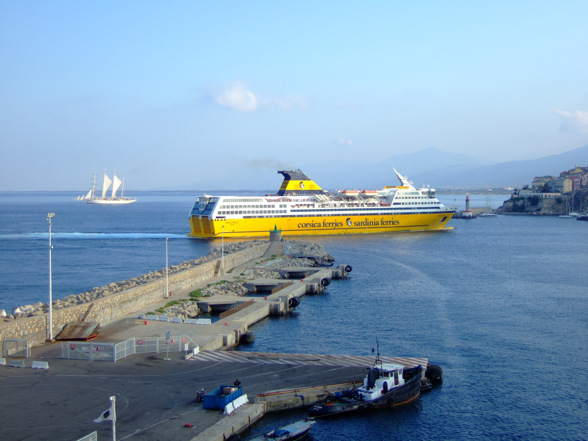 Mv Mega Express from Corsica Ferries company coming in in Bastia port. Corsica, France.